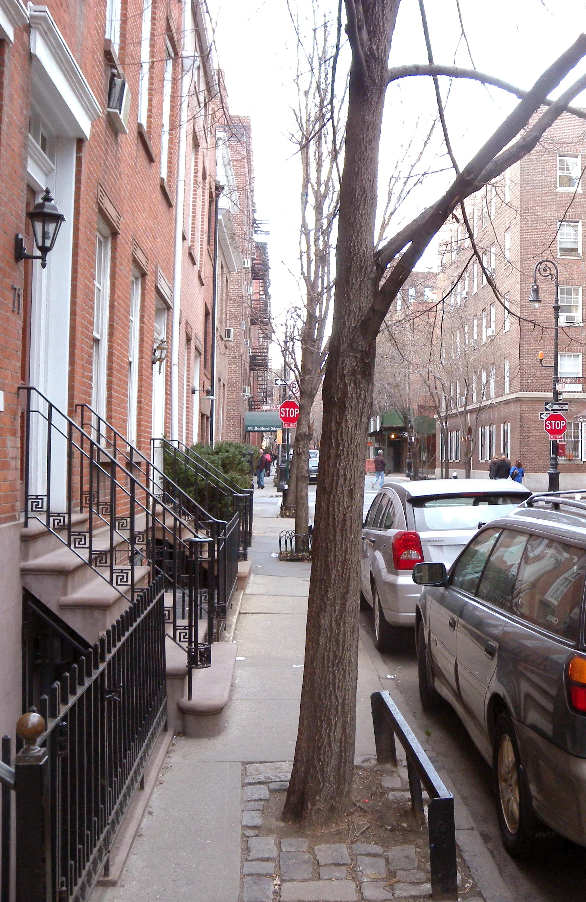 Looking north along west sidewalk in front of 71 Bedford Street, Greenwich Village on a cloudy afternoon.